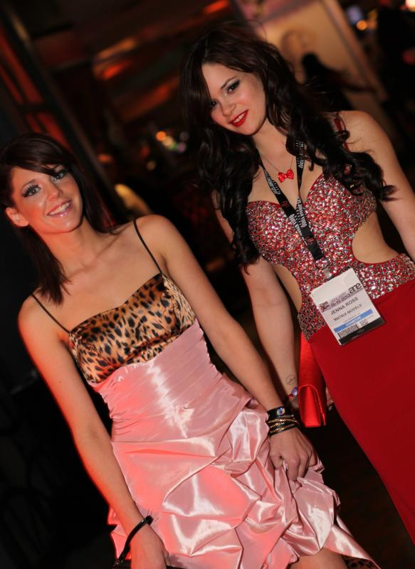 Kiera Winters (left) Jenna Ross (right) Photos from the 2013 AVN Awards held at the at the Hard Rock Hotel & Casino in Las Vegas. Please provide photographer credit when using, tweeting, etc... Photo by Michael Dorausch This photo is licensed under a Creative Commons license. If you use this photo within the terms of the license or make special arrangements to use the photo, please list the photo credit as "Michael Dorausch" and link the credit to . Thank you to everyone for being so accommodating during the days I took photos, it's much appreciated.